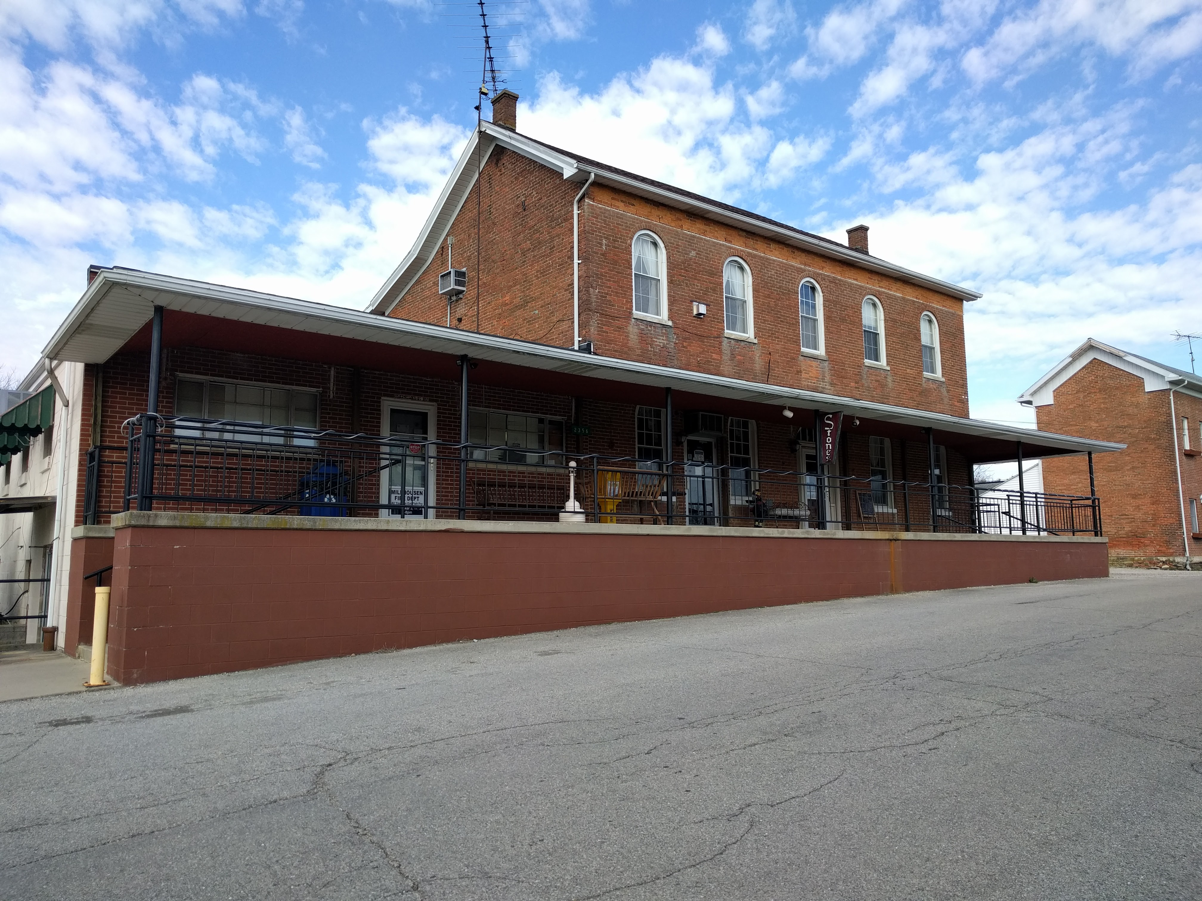 Millhousen, Indiana, USA